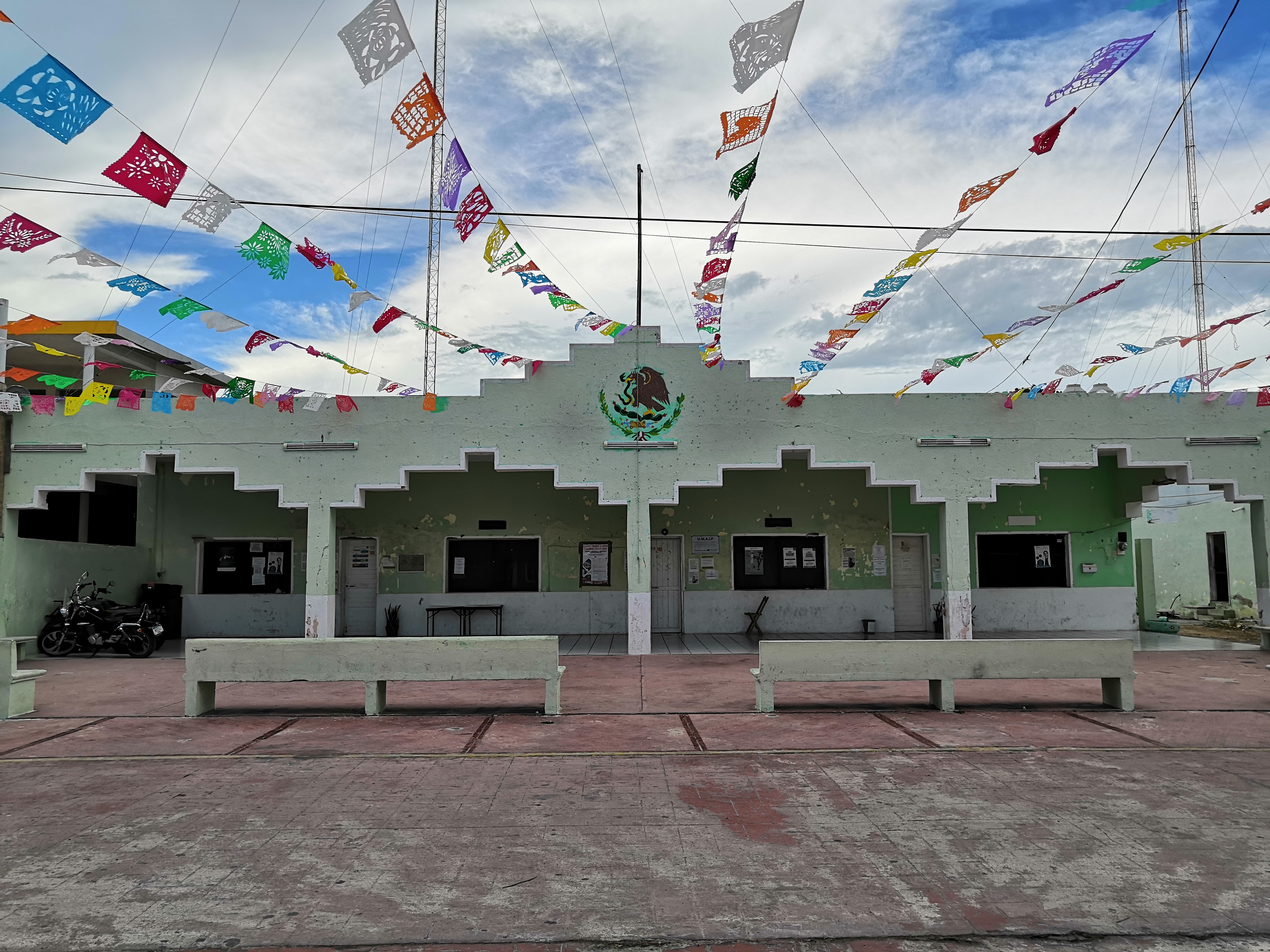 Municipal Palace. Seat of the City Council of the municipality of San Felipe, state of Yucatan, Mexico.